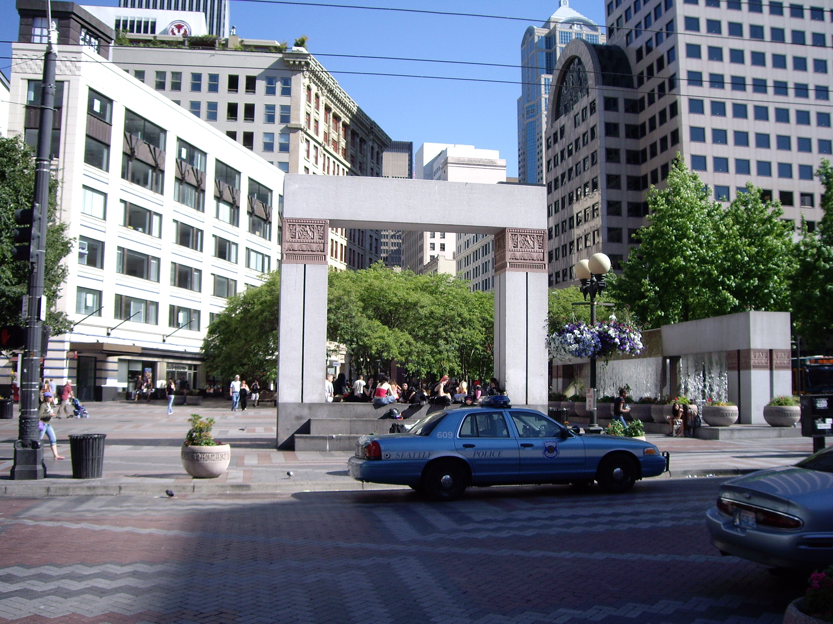 Westlake Park (Seattle). Photo taken by User:Jon Stockton.